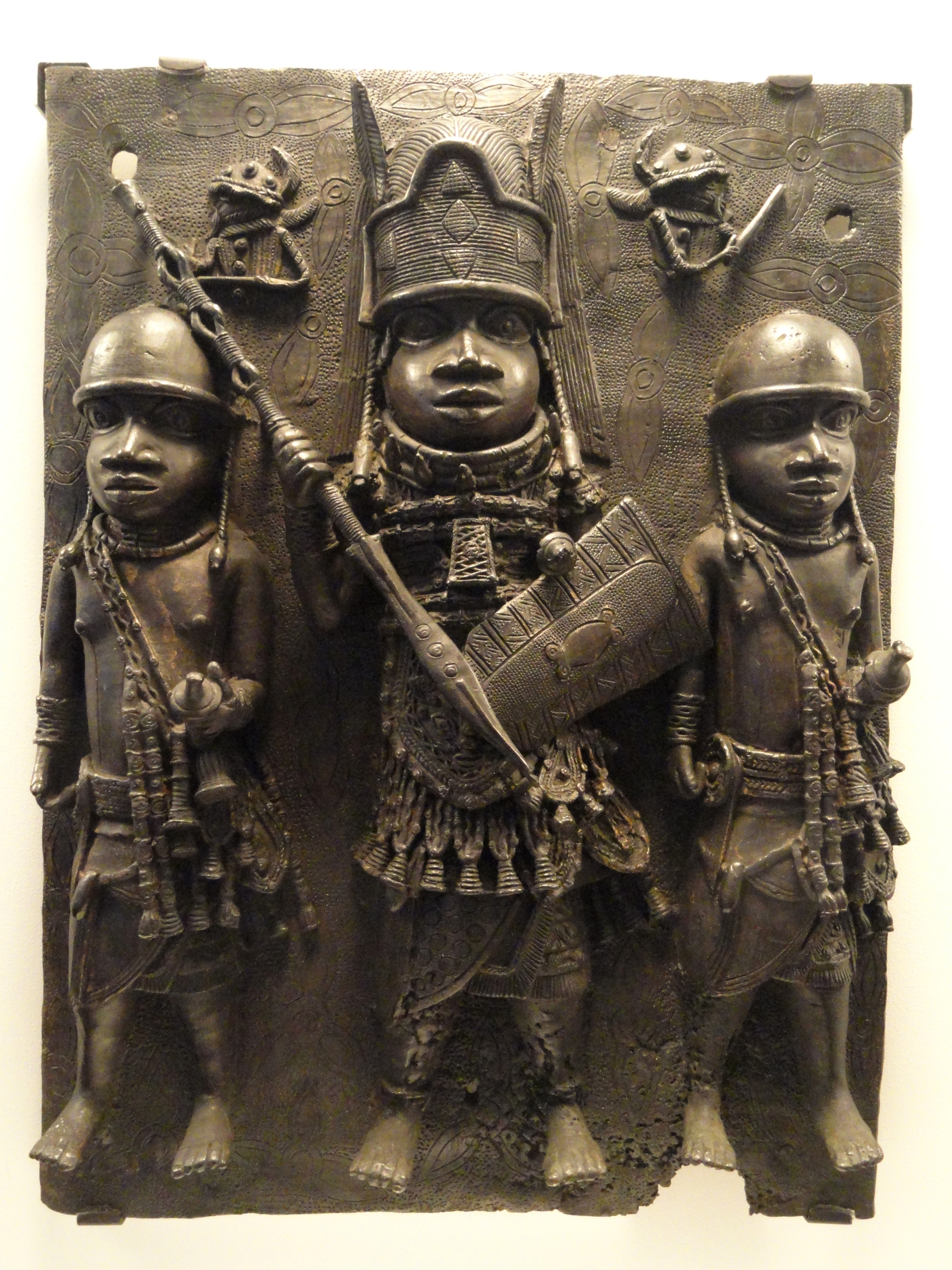 Plaque depicting chief flanked by two warriors, Benin, AD 1550-1650. Exhibit from the African Collection, Peabody Museum, Harvard University, Cambridge, Massachusetts, USA. Photography was permitted without restriction; exhibit is old enough so that it is in the public domain.